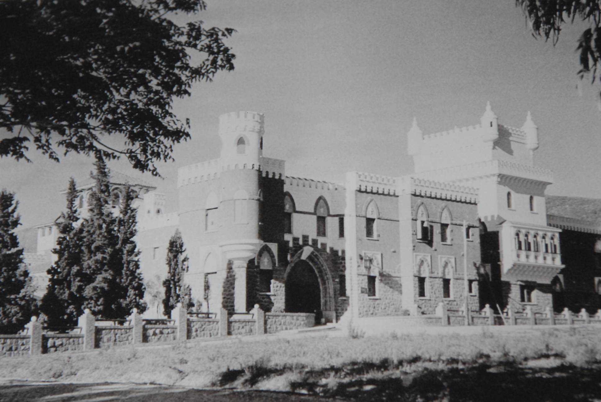 El Castillo Hotel, circa 1940